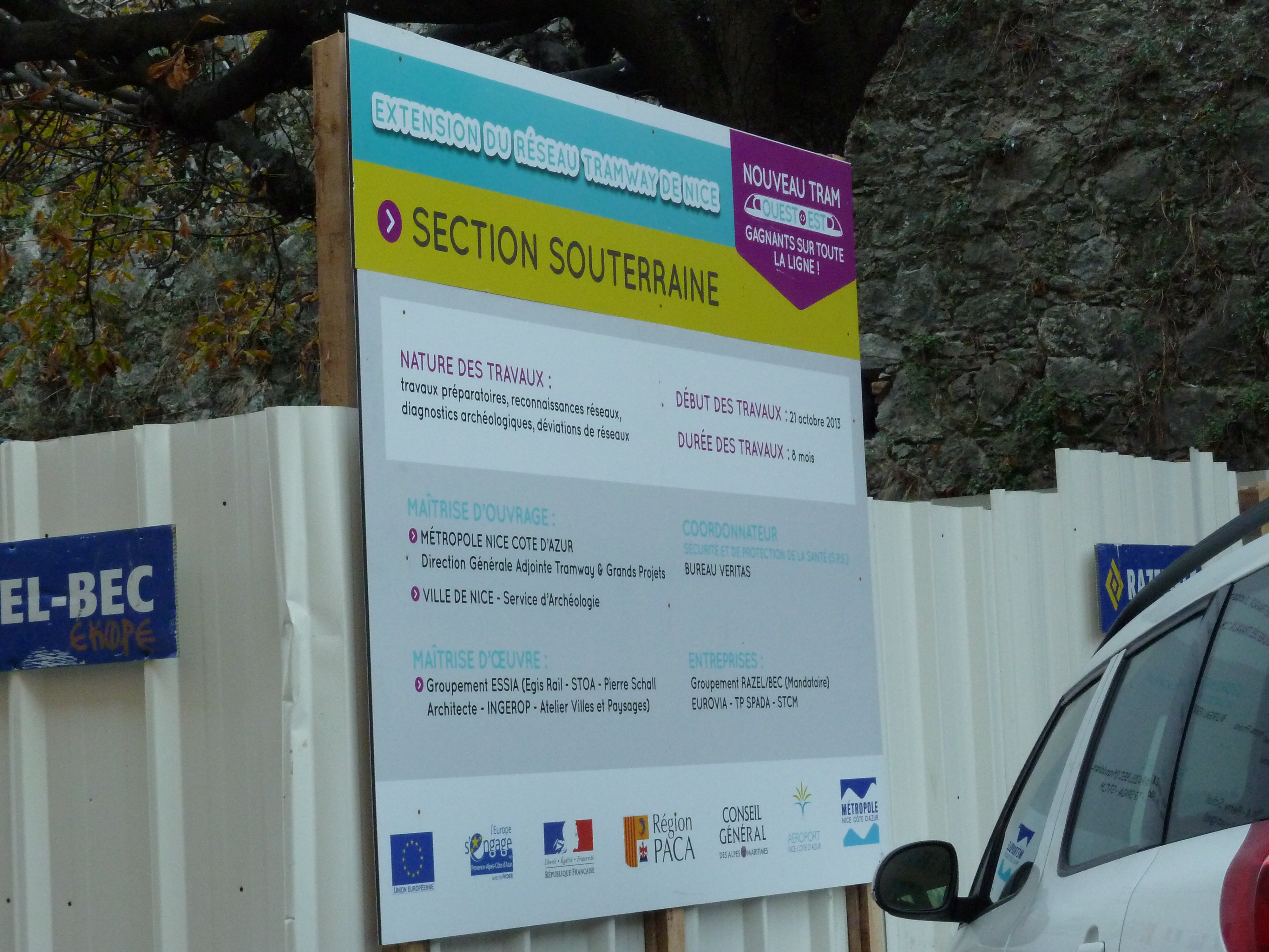 Public works on the street Catherine Ségurane of Nice tram line 2.